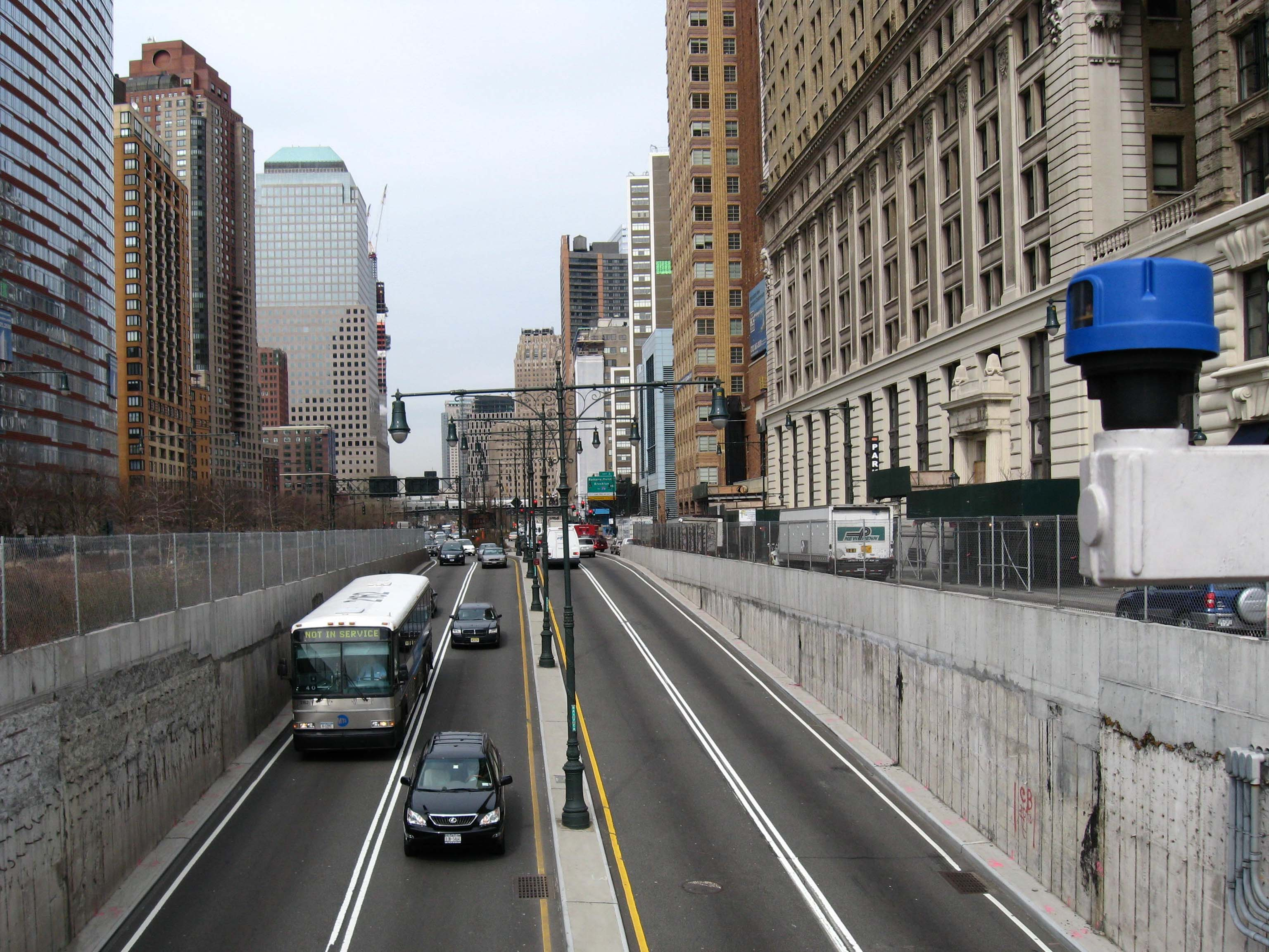 Ramp climbs out of Battery Park Underpass to West Side Highway. I took this picture near dusk on a sunny day in early spring, standing on a street overpass. World Financial Center in background left.